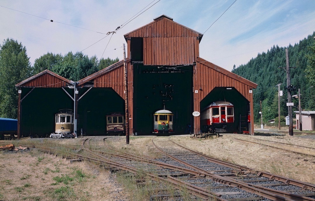 Front of the carbarn at the Trolley Park (in Glenwood, Oregon), the former location of the Oregon Electric Railway Museum, which closed at this location in 1995 and opened at its new location, in Brooks, Oregon, in 1996. The four cars visible in this photo are (left to right): a Porto, Portugal single-truck car; a San Francisco cable car; Sydney, Australia "O"-class car 1187; and British Columbia Electric Railway interurban 1304. Some of these cars are no longer in the museum's collection.